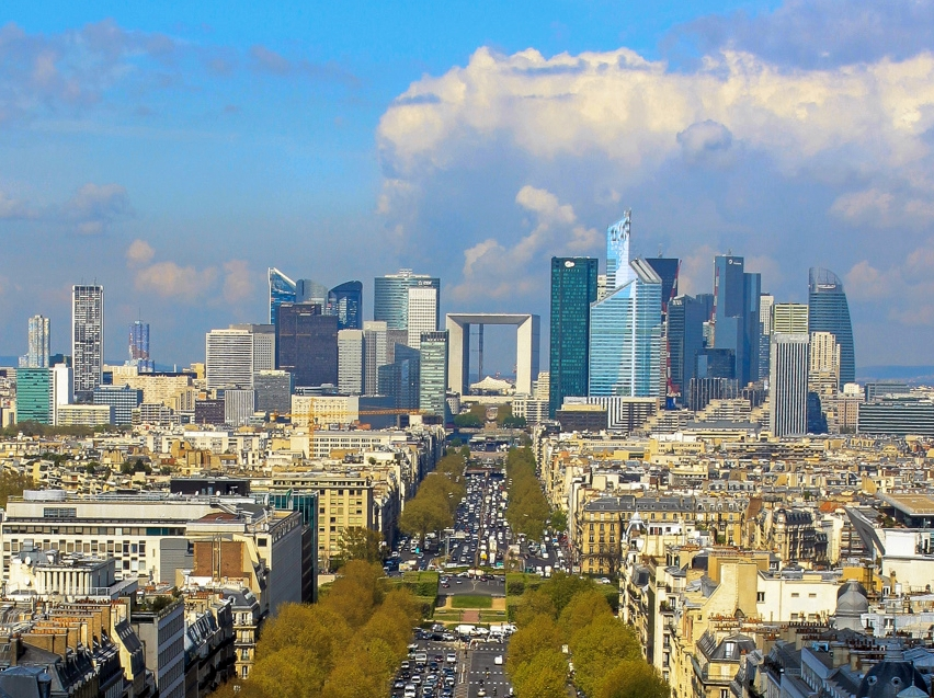 La Defense from Arch de Triomphe.